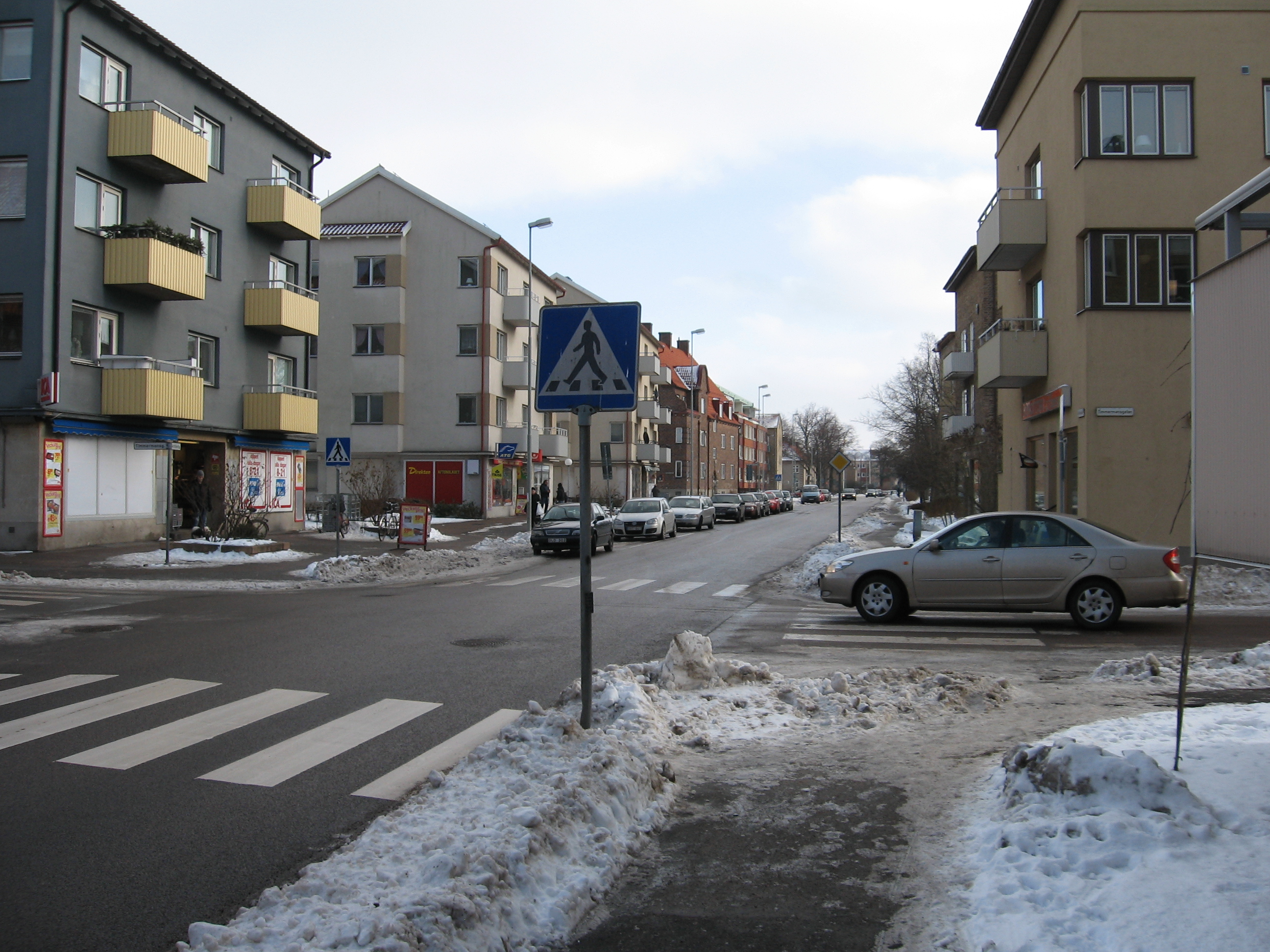 Artillerigatan in Landskrona